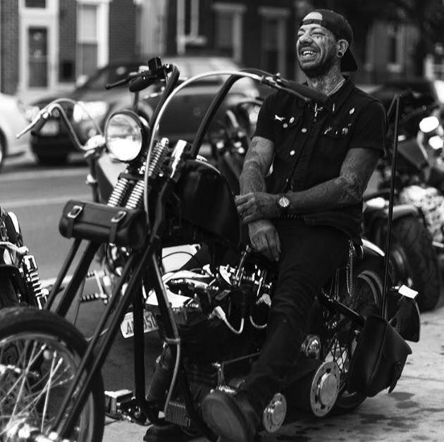 Traditional Tattoo Artist, Myke Chambers, on his motorcycle in Philadelphia, PA